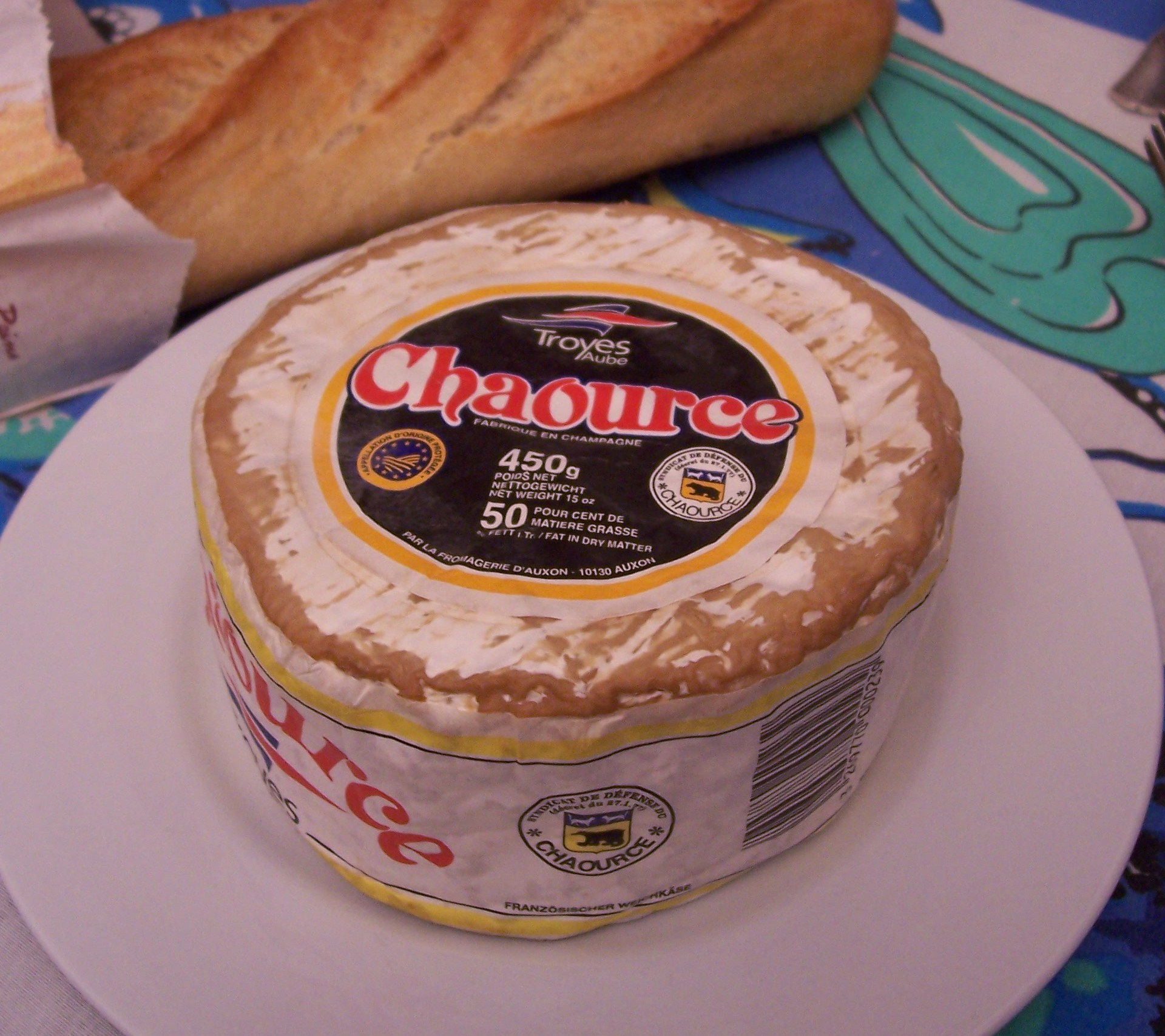 original CHAOURCE